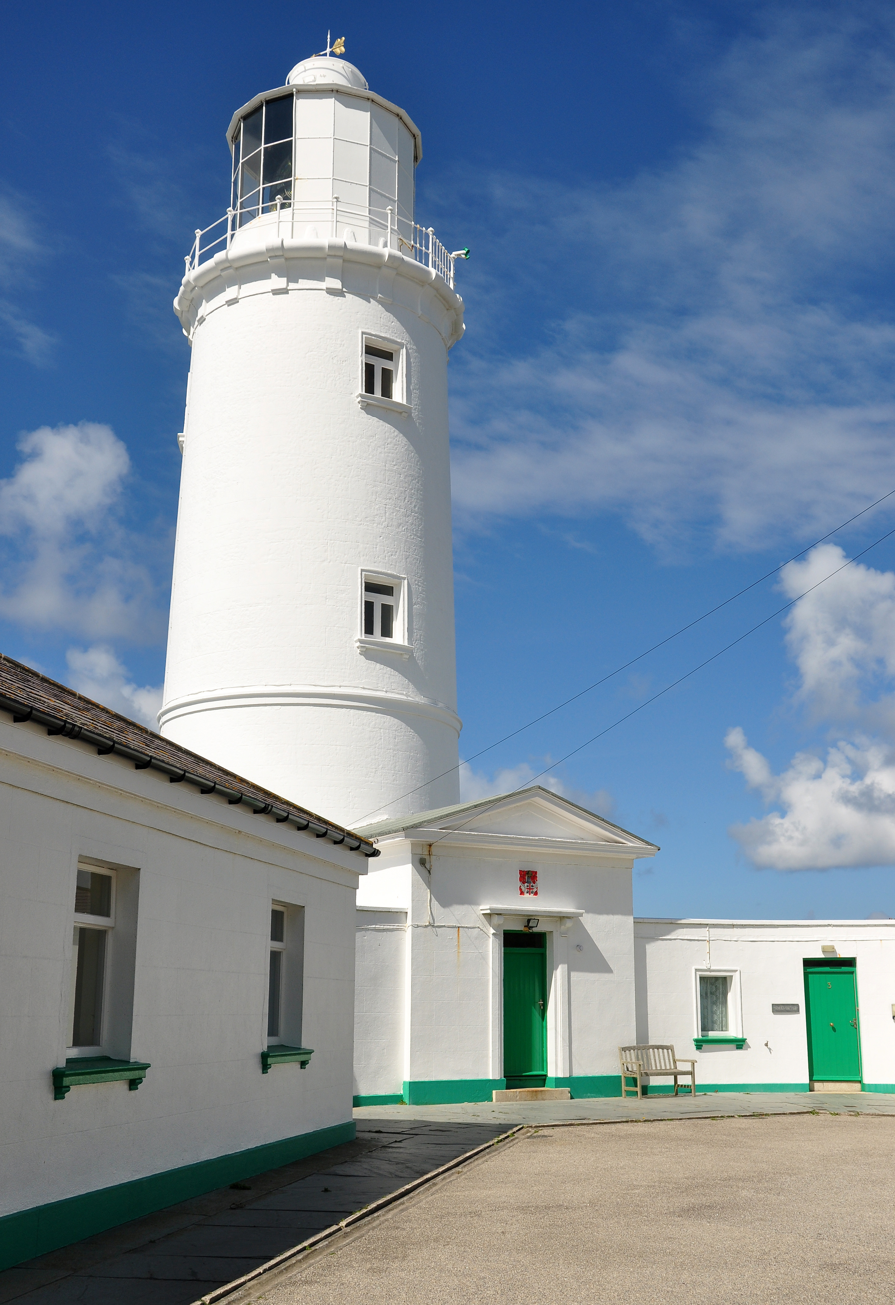 Trevose Head Lighthouse on the north Cornish coast.